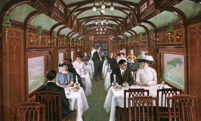 Postcard depiction of a Reading Railroad dining car.